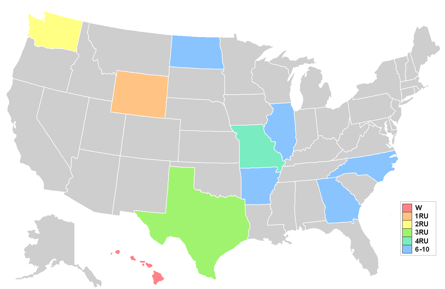 Map showing placements at the Miss Teen USA 1985 pageant. Key on graphic shows colour coding for break down of placements.